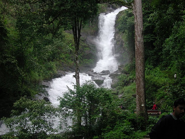 Irupu falls coorg district.